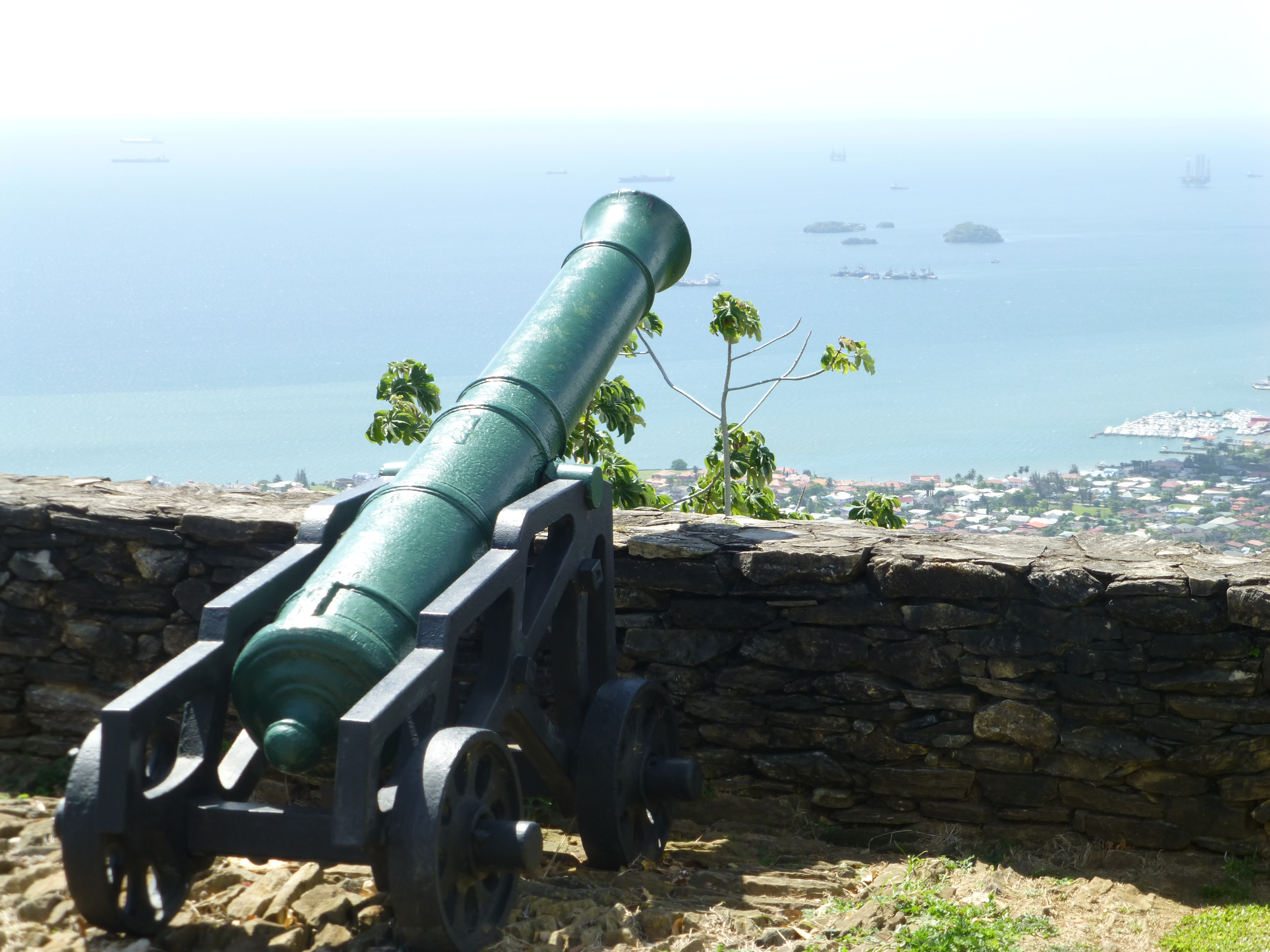 Cannons overlooking Five Islands, Fort George, Port of Spain, Trinidad.